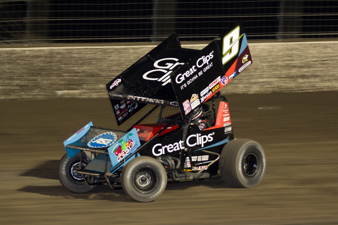 2013 World of Outlaws Sprint Car champion Daryn Pittman racing at Dodge City Raceway Park in Dodge City, KS in July 2013.